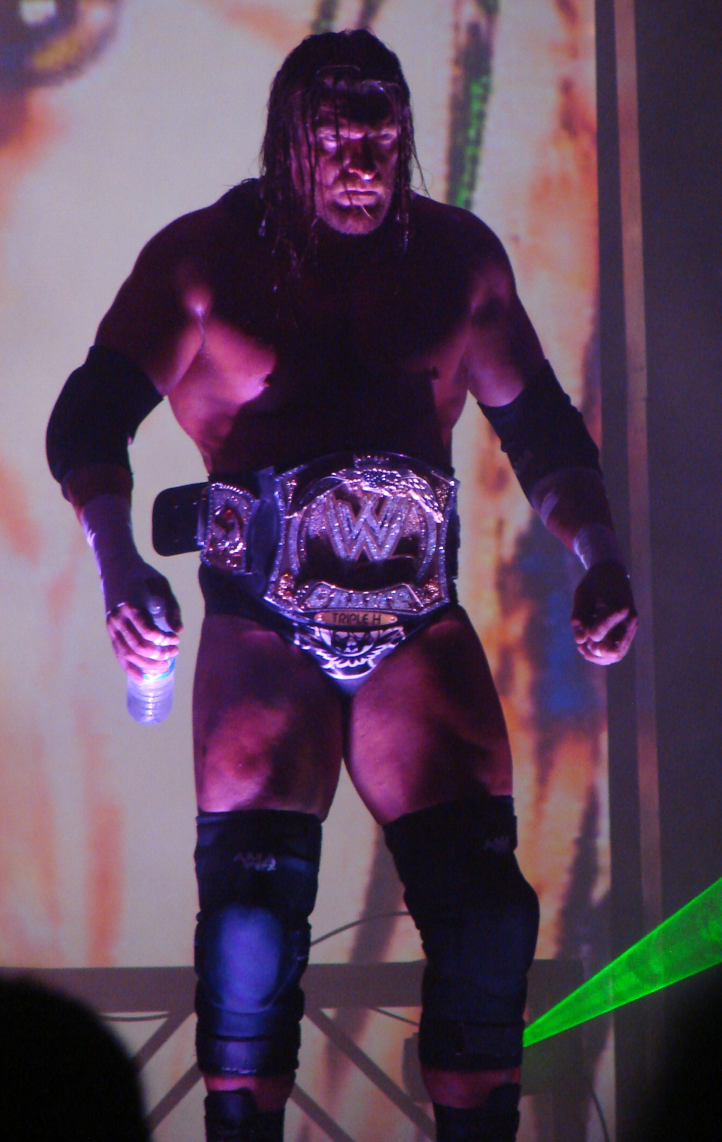 WWE Champion Triple H at No Mercy 2007. Allstate Arena, Rosemont, IL, October 7, 2007. 13 times champion Taken by me, cropped, rotated.